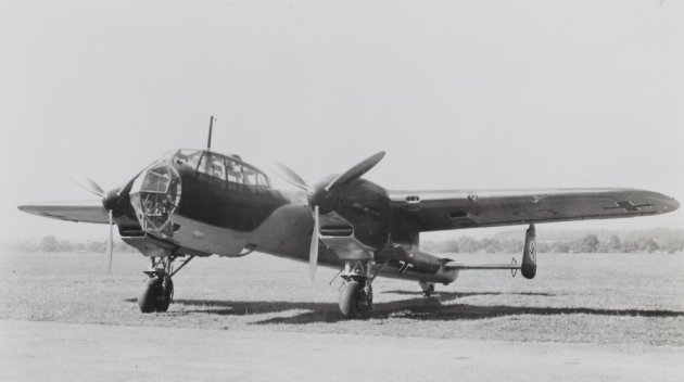 PictionID:38235984 - Catalog:Array - Title:Array - Filename:15_002316.TIF - -------Image from the Charles Daniels Photo Collection.----Album: German Aircraft.-----------PLEASE TAG these images with any information you know about them so that we can permanently store this data with the original image file in our Digital Asset Management System.-----------------SOURCE INSTITUTION: San Diego Air and Space Museum Archive